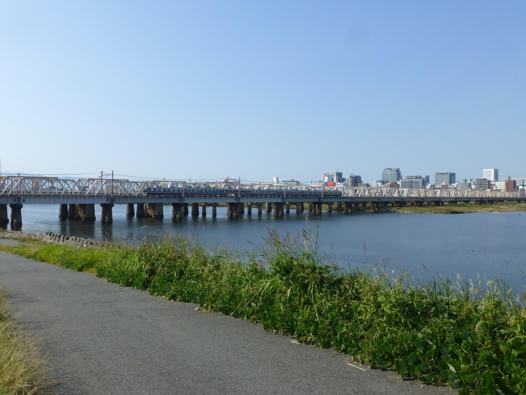 Kami-Yodogawa bridge on Tokaido main line seen from downbound line side (upstream side). The front side bridge is two single track plate girder bridges and constructed in 1939. The central bridge is double track pratt truss bridge and constructed in 1901, designed by American engineers Charles Schneider and Theodore Cooper, built in A & P Roberts Pencoyd Iron Works. The other side bridge is double track pratt truss bridge and constrcuted in 1928.